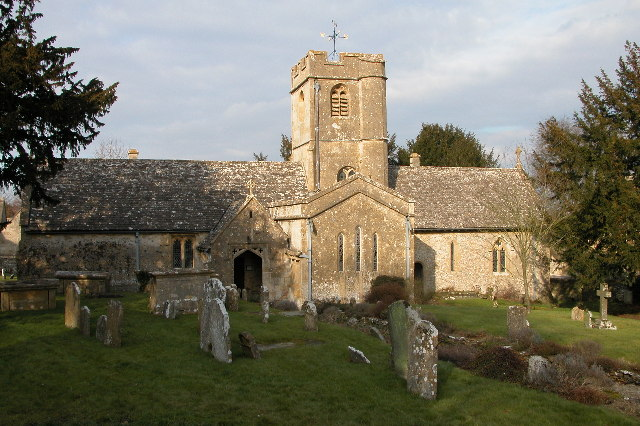 Church of England parish church of St Andrew, Sevenhampton, Gloucestershire: view from the south